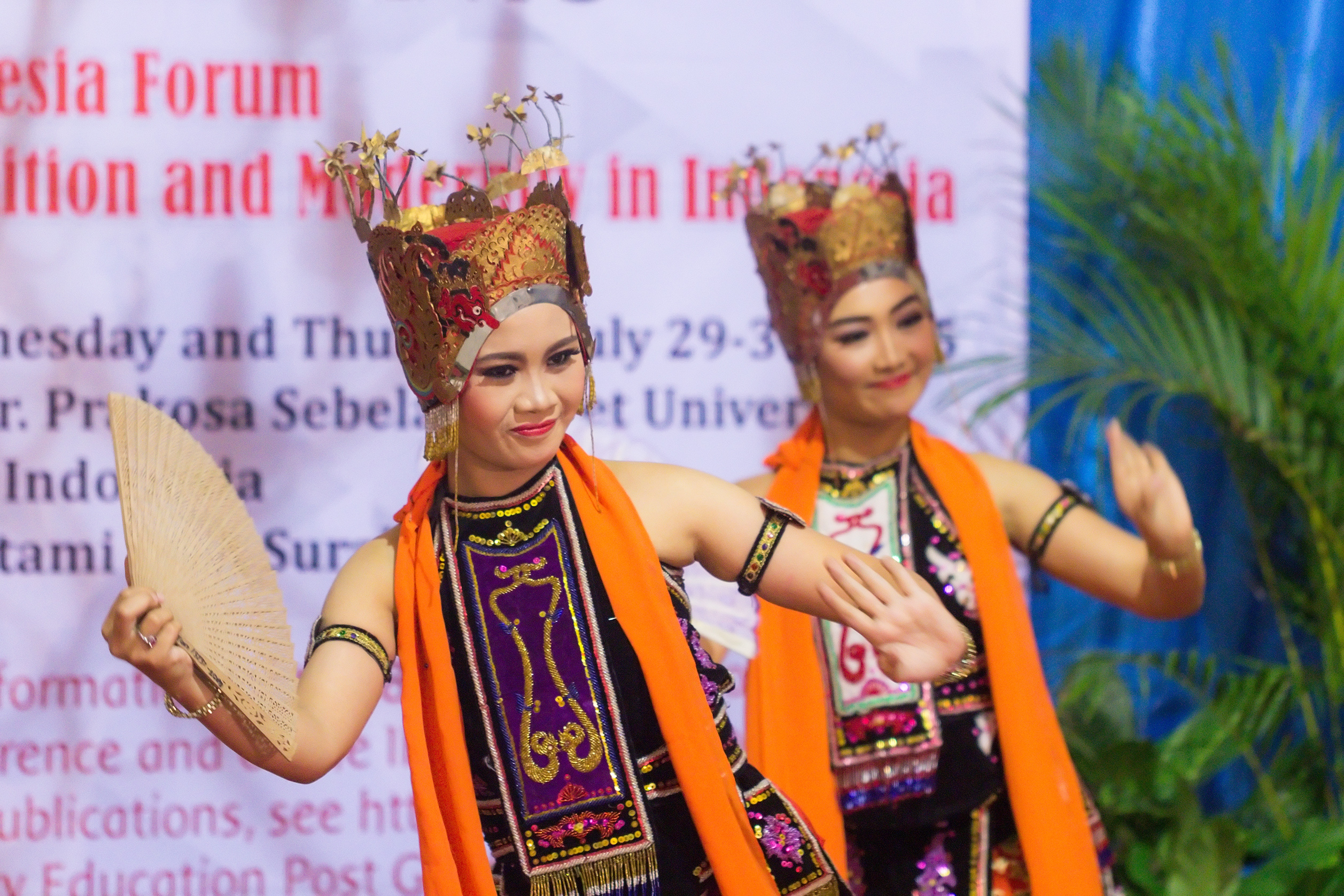 Students of Sebelas Maret University dancing the Jejer Dance at the welcome dinner for International Indonesia Forum speakers, 2015-07-29